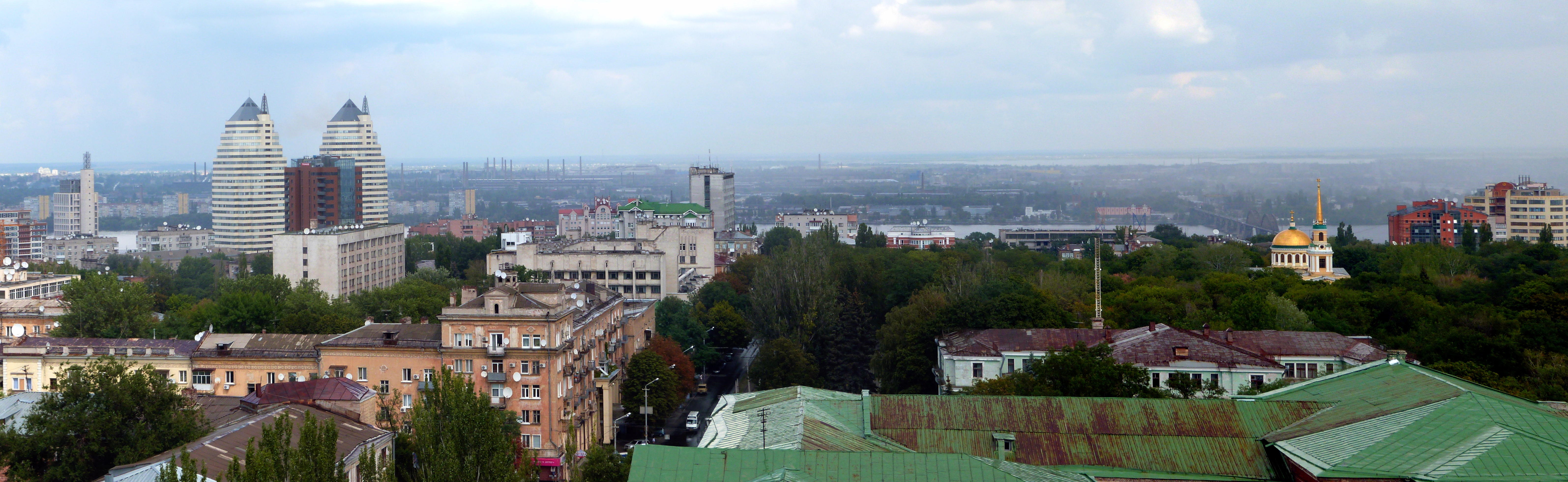 Panorama of Dnipro